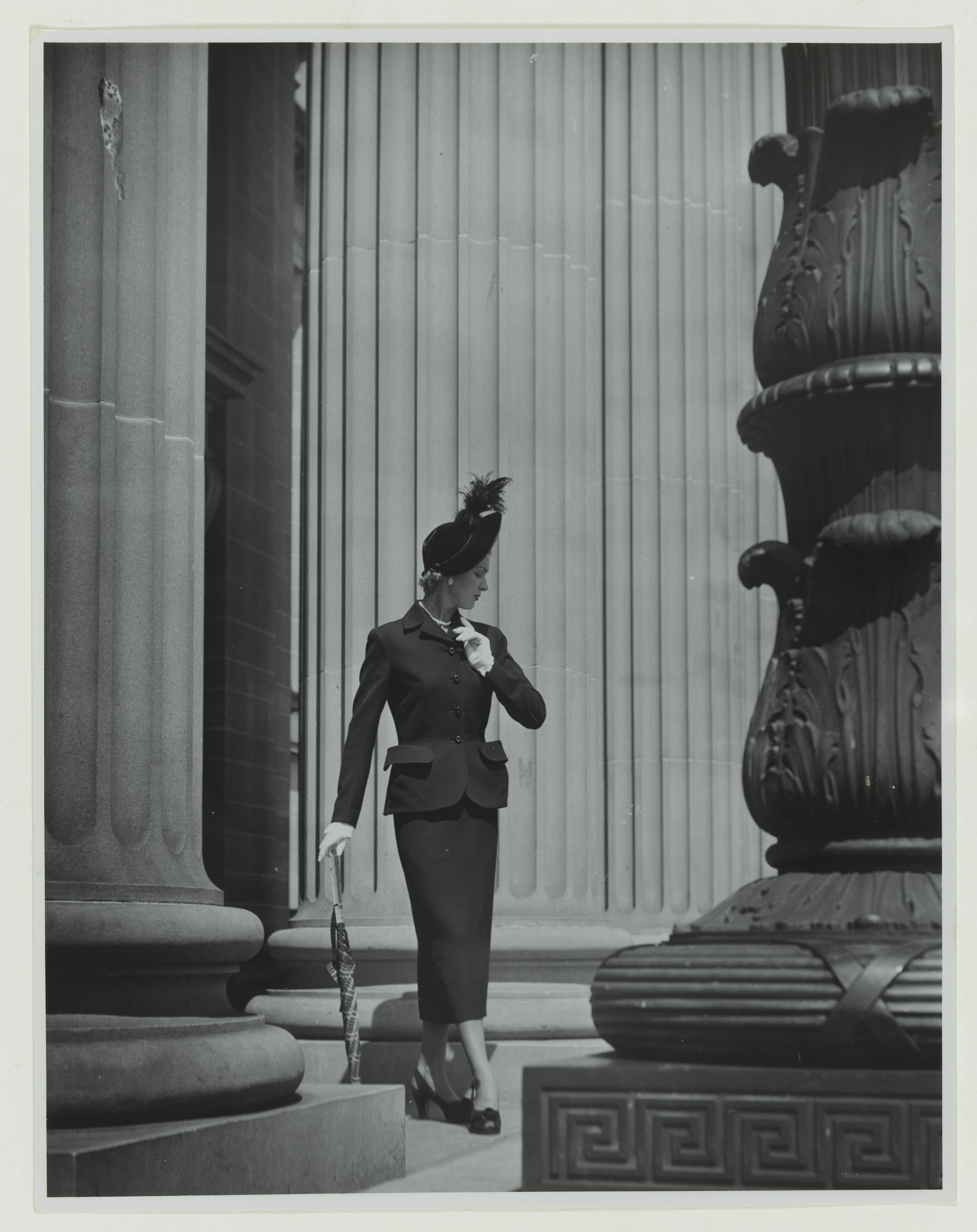 Model in New Look fashion on steps of the Public Library of New South Wales